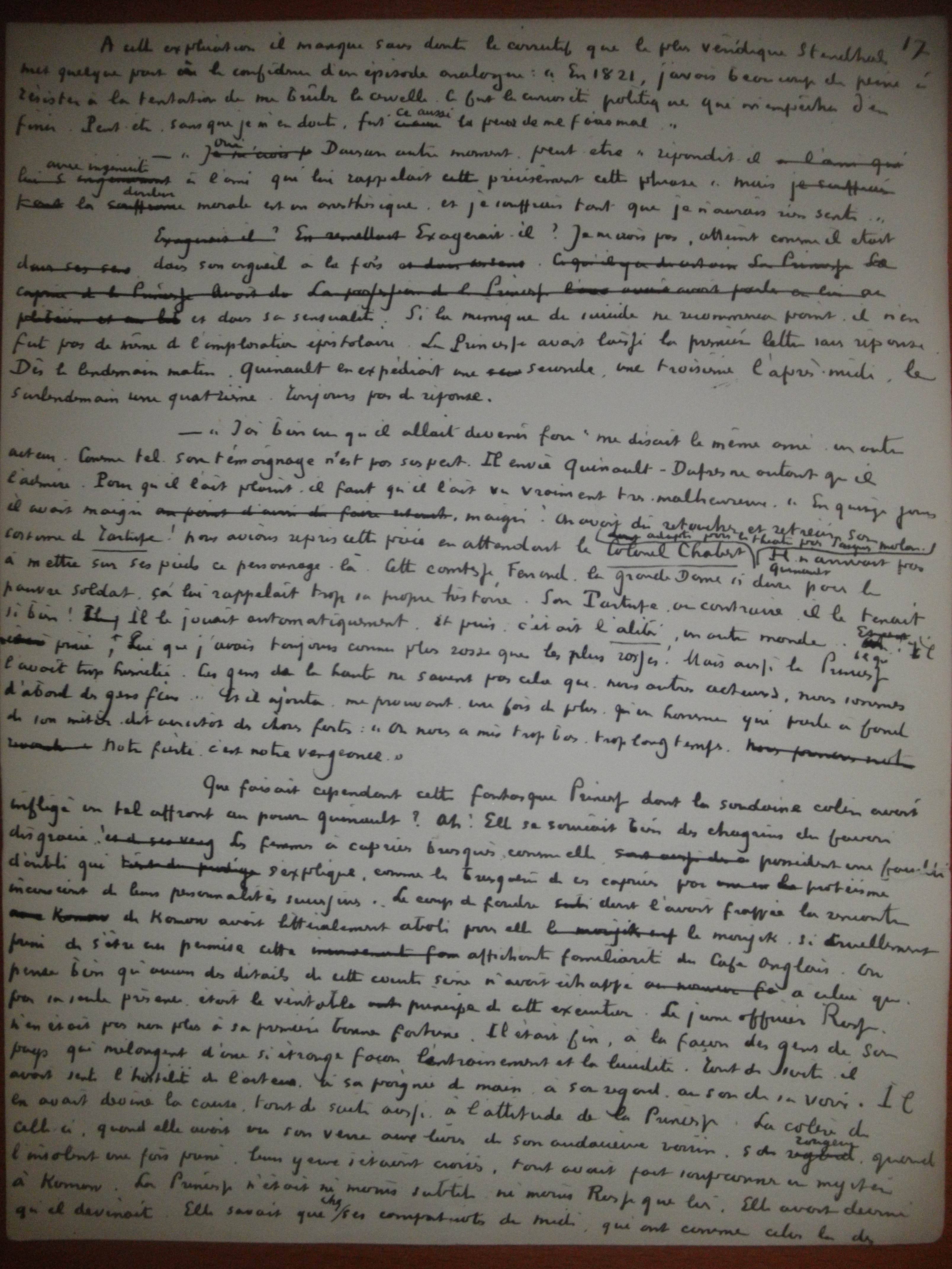 beau role